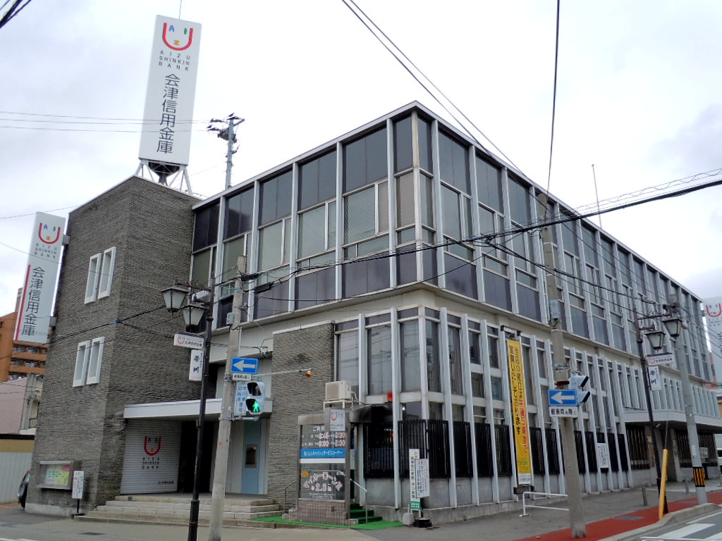 Aizu Shinkin Bank head store.